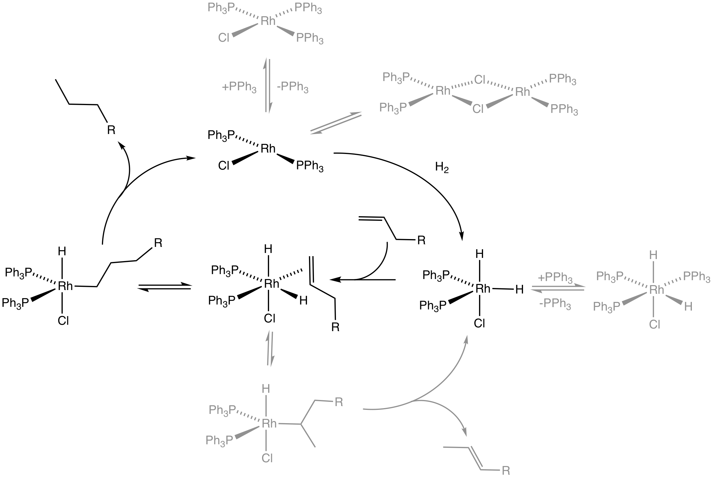 cycle for alkene hydrogenation catalyzed by RhCl(PPh3)3